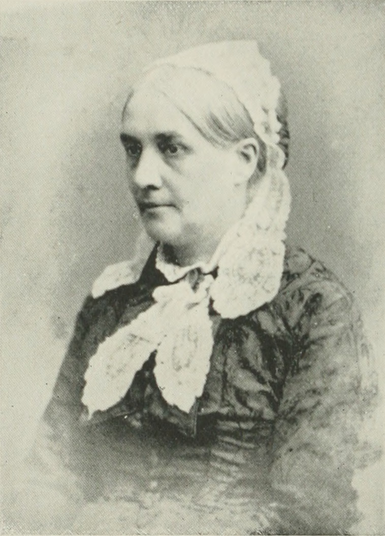 A Woman of the Century